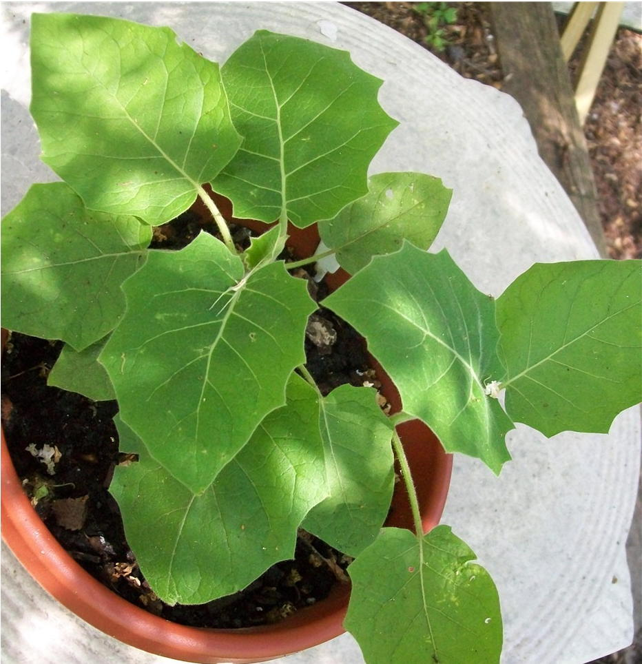 Cocona - Solanum sessiliflorum plants.